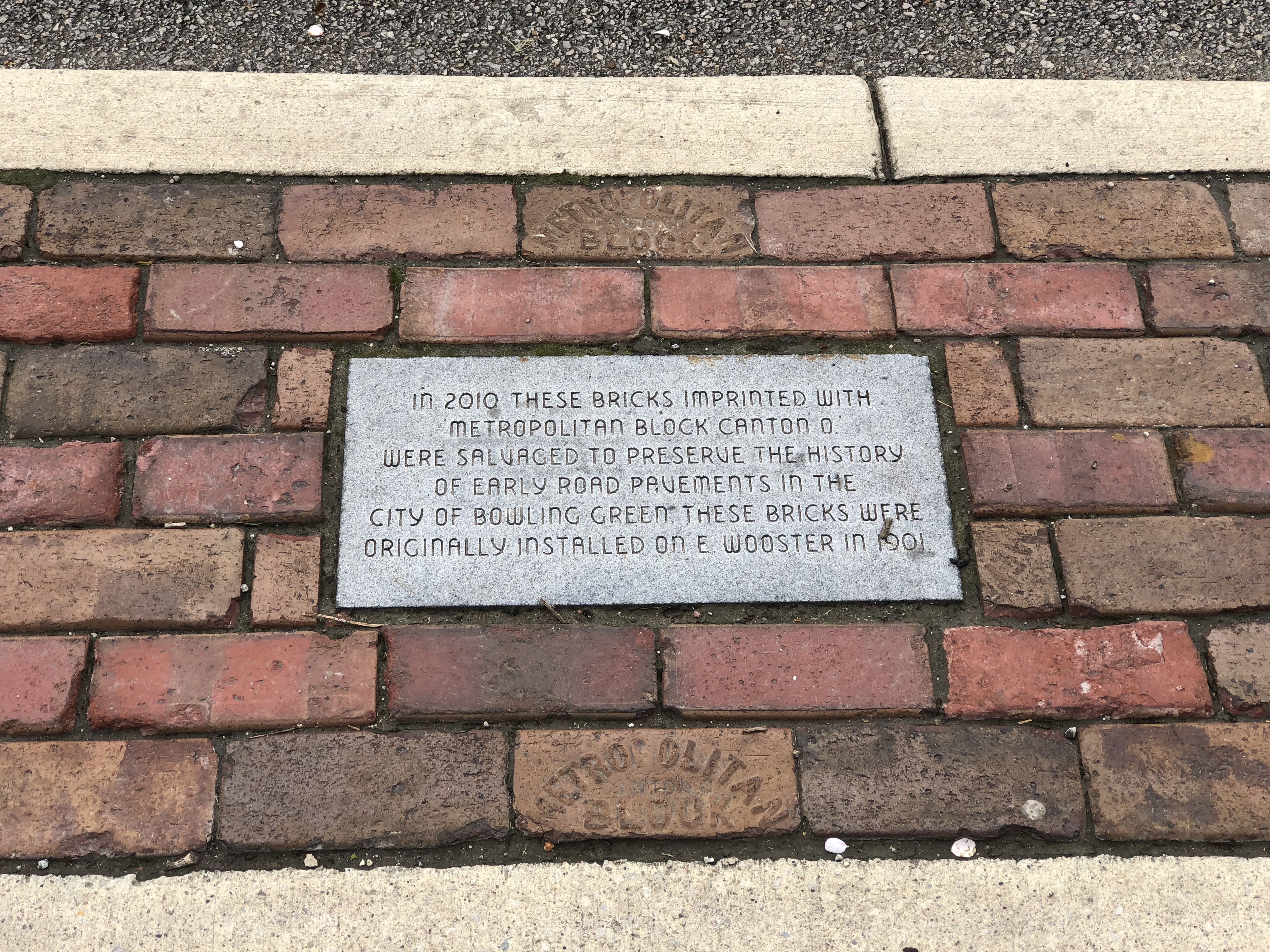 A small portion of Wooster Street's original bricks perserved in a small memorial next to their original road.